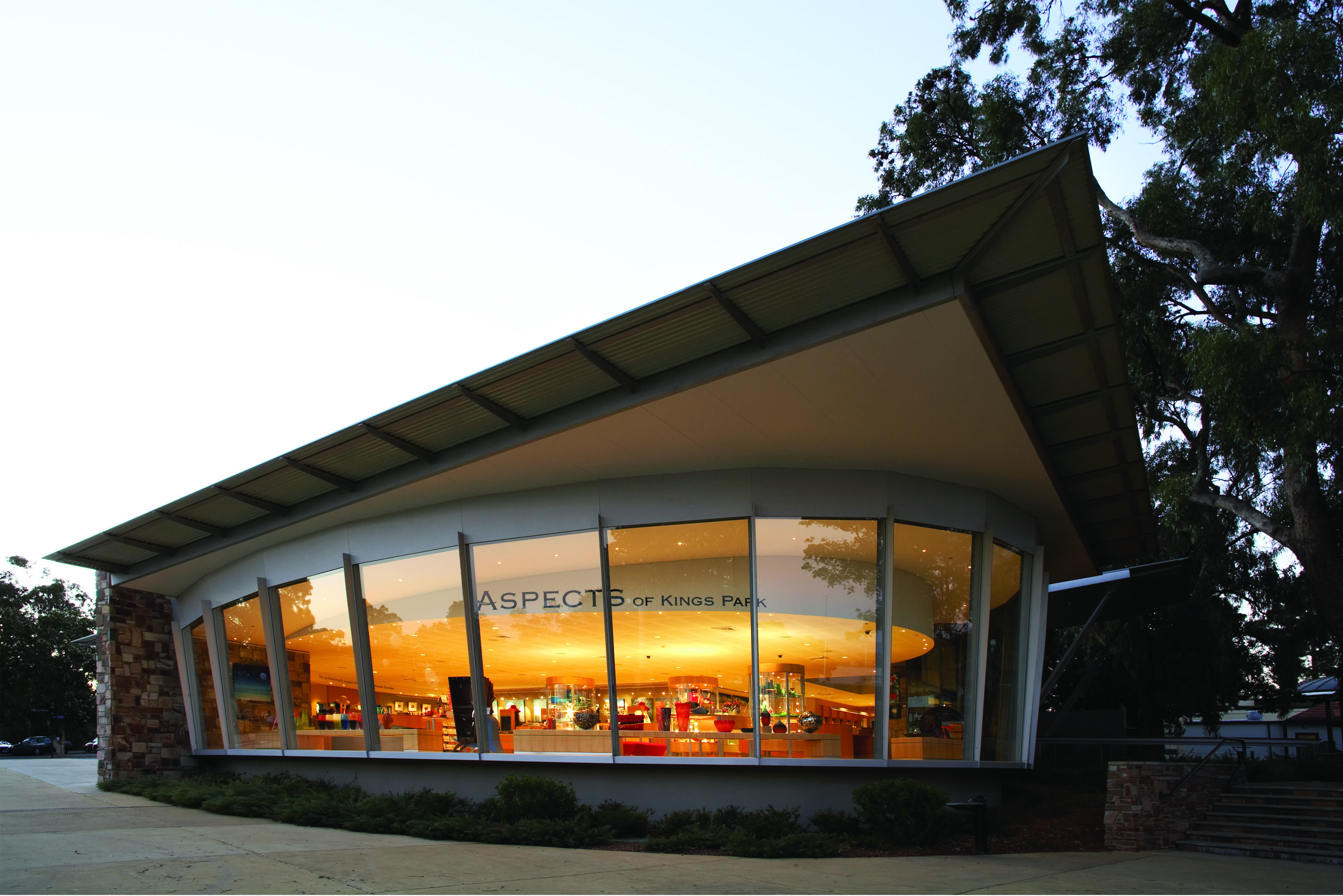 Aspects of Kings Park Retail Gallery